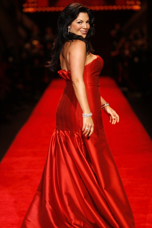 Sara Ramirez modeling at The Heart Truth Fashion Show 2008